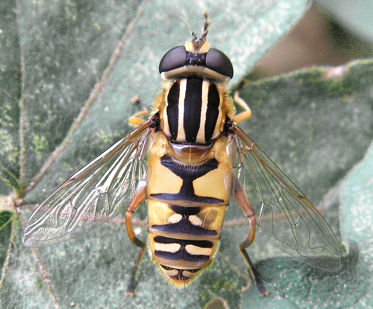 A female Helophilus pendulus. Photo by Jens Buurgaard Nielsen. Identified on as such, see [1] for confirmation